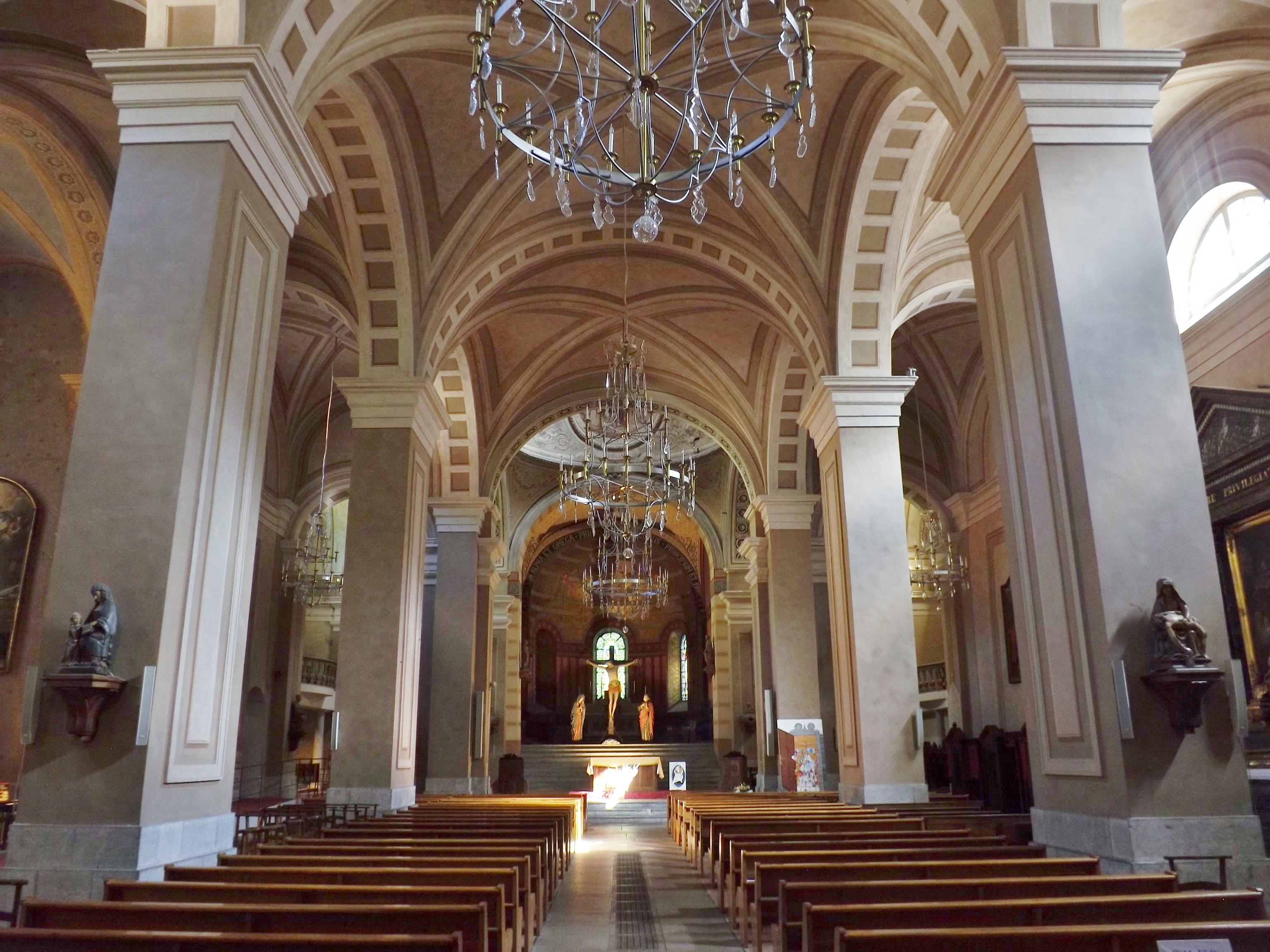 Inside sight of Moûtiers cathedral, in Savoie, France.